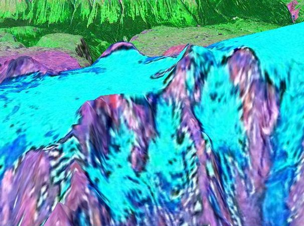 Ice Peak